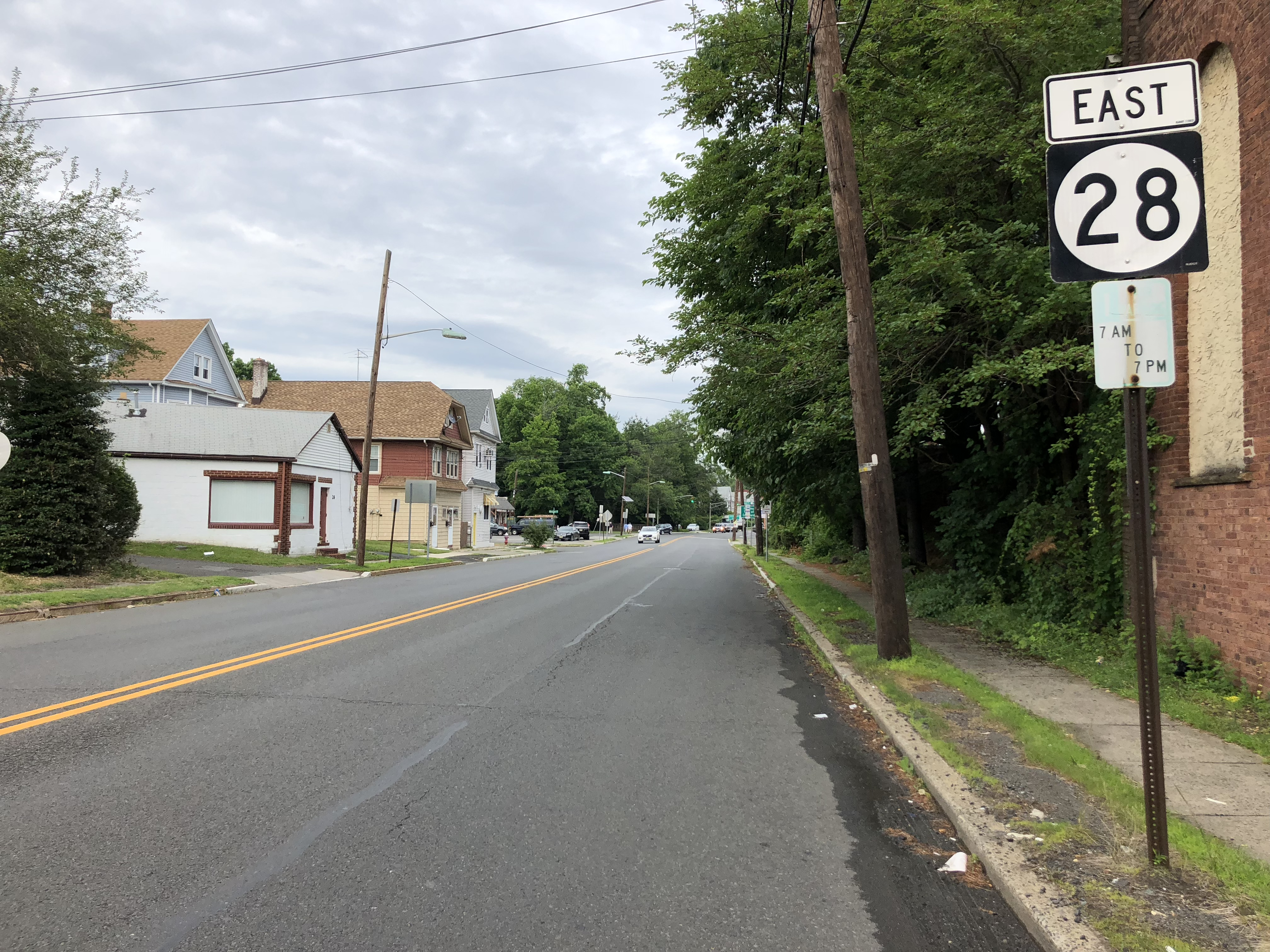 View east along New Jersey State Route 28 (North Avenue) between Anchor Place and Winslow Place in Garwood, Union County, New Jersey